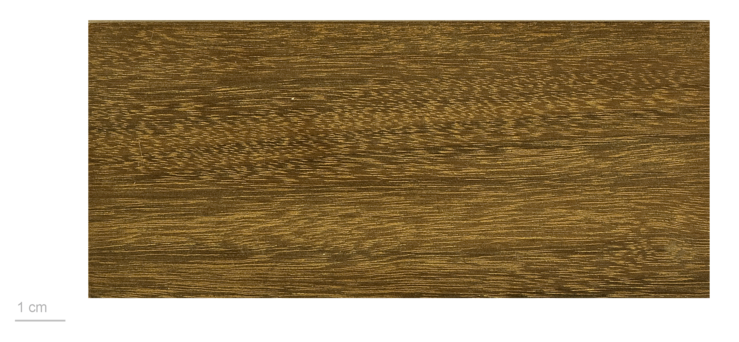 Yellow Lapacho , wood